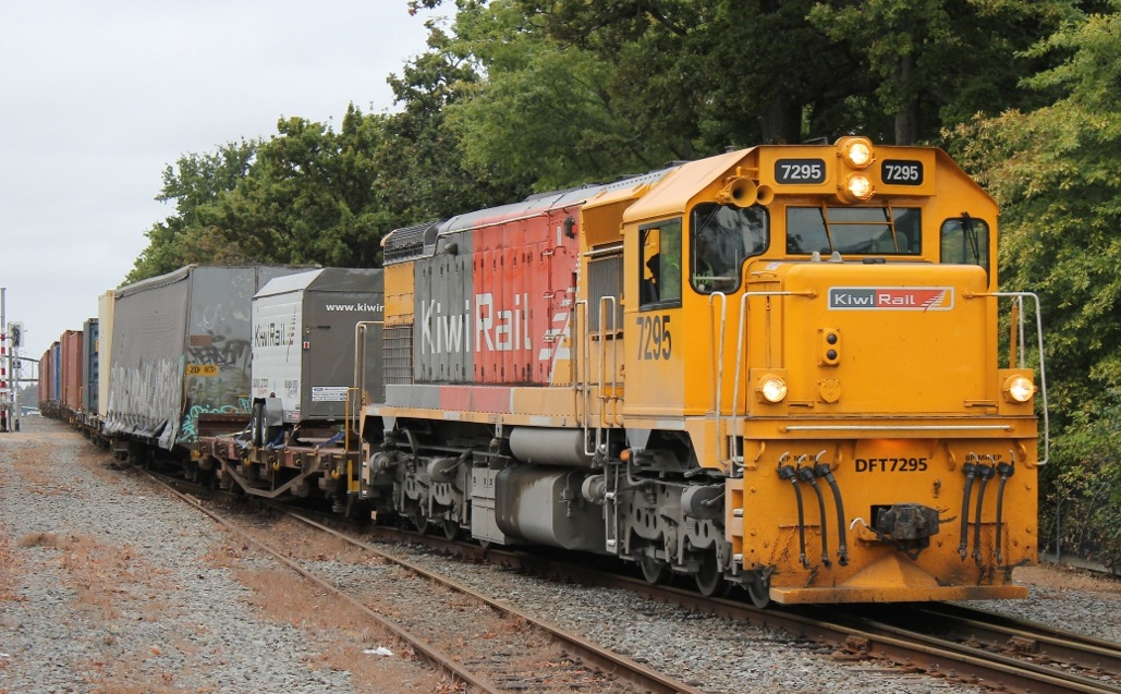 Picture of locomotive DFT 7295 leaving Ashburton Yard.